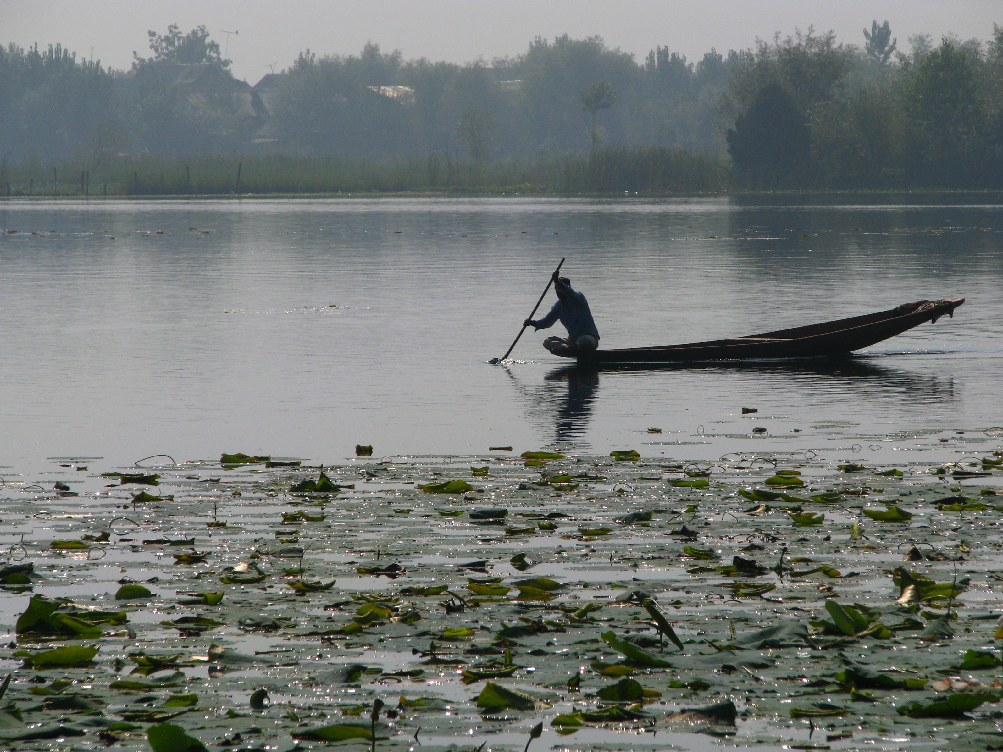 A quiet shikara paddles out among the lily pads at dawn on Nagin Lake.